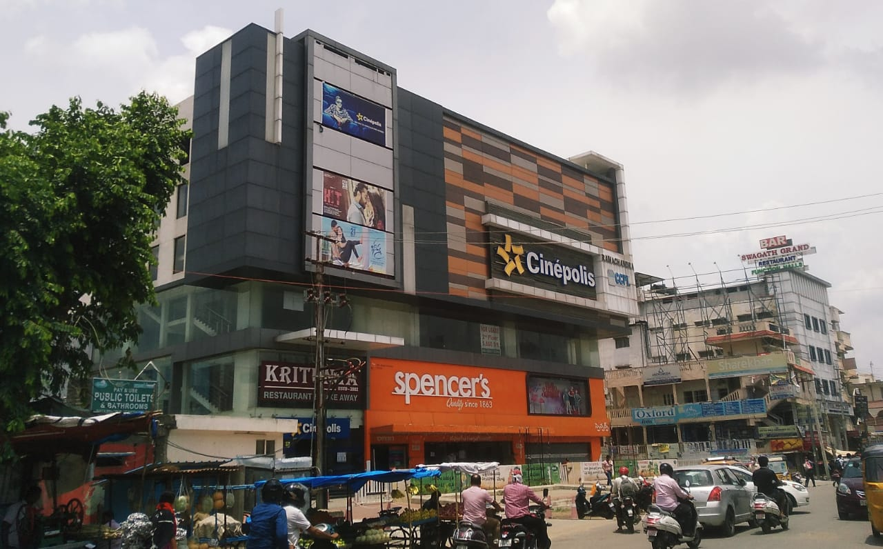 Busy street in Malkajgiri